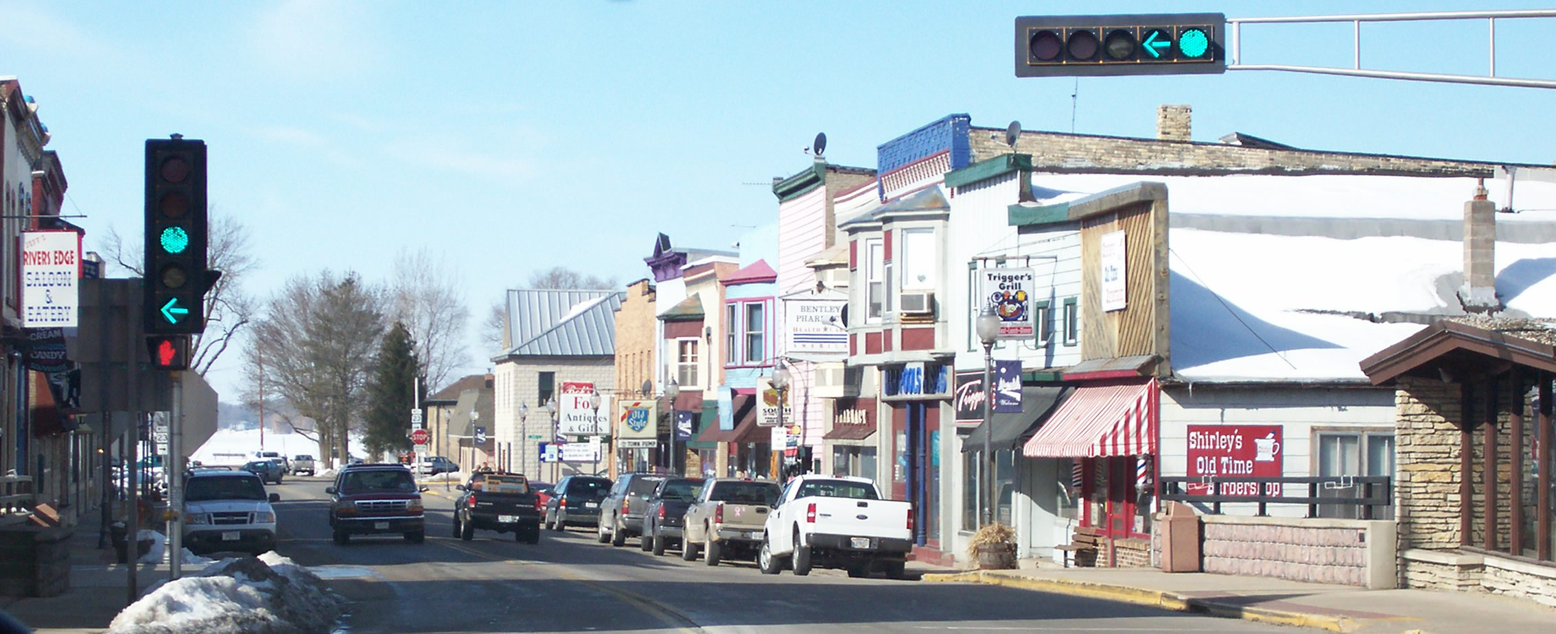 Looking at downtown Montello, Wisconsin, USA while travelling on Wisconsin Highways 23 and 22. Taken March 11, 2007 by myself. Cropped from the original.